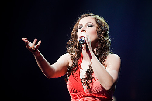 I have taken this photo on the concert.